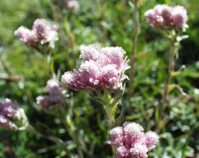 (en) Antennaria dioica, a photography originating of the internet site The accord of the autor, H. Brisse, is here. (fr) Antennaria dioica, une photographie issue du site internet L'accord de l'auteur, H. Brisse, se situe ici.